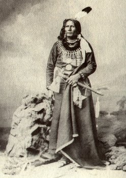 Standing Bear